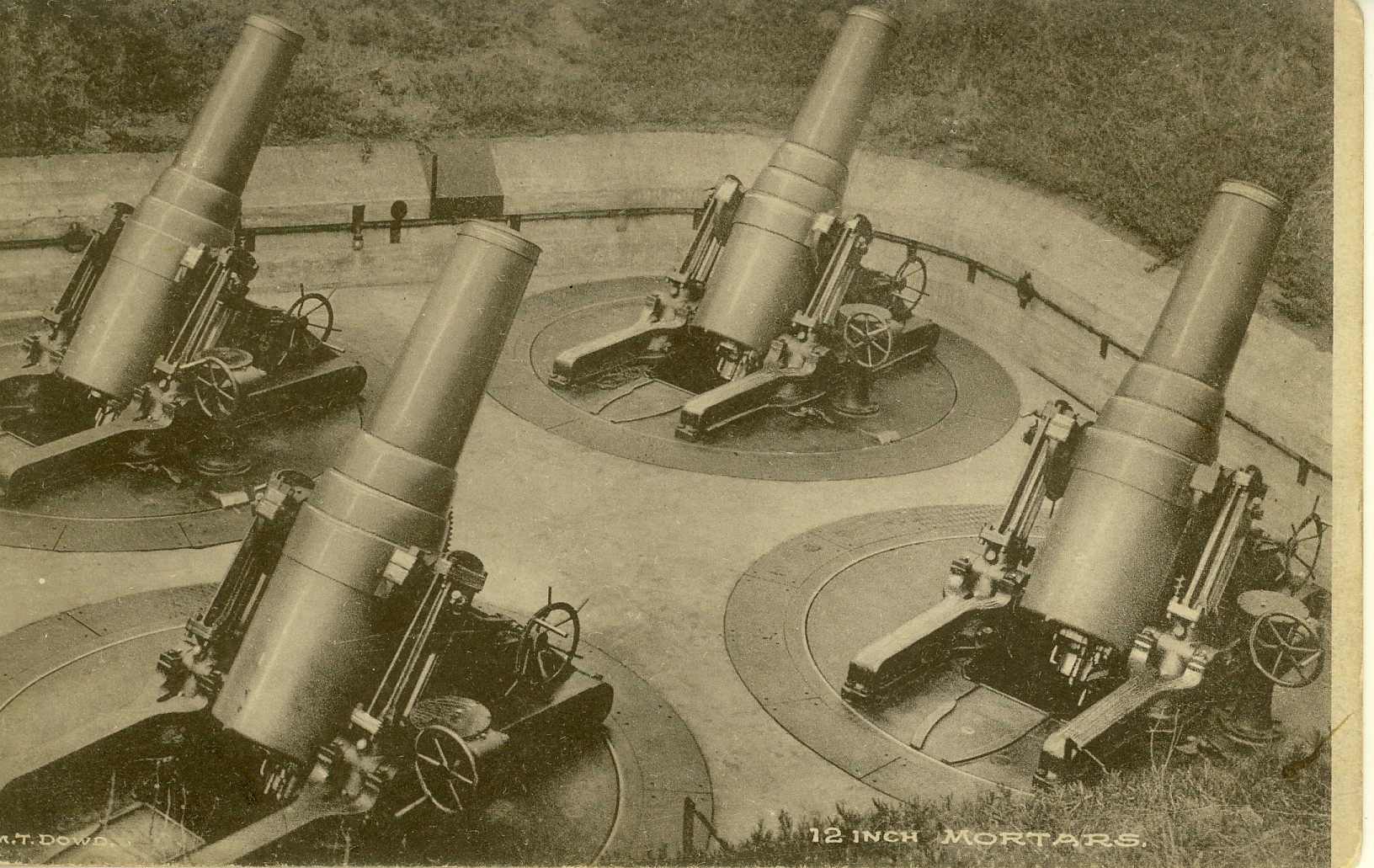 Local Accession Number: PC 183 Description: Postcard photograph of 4 12 in. mortars at Fort Greble during World War I. Photographer: Unknown Source: Donated by Jean Brannum Nichols Size: 3x5 Medium: Print, Black and White Date: c. 1917- 1918